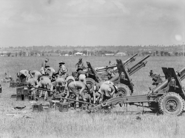 Gunners from the 2/2nd Field Regiment, Royal Australian Artillery, practicing at Singleton, New South Wales, January 1943